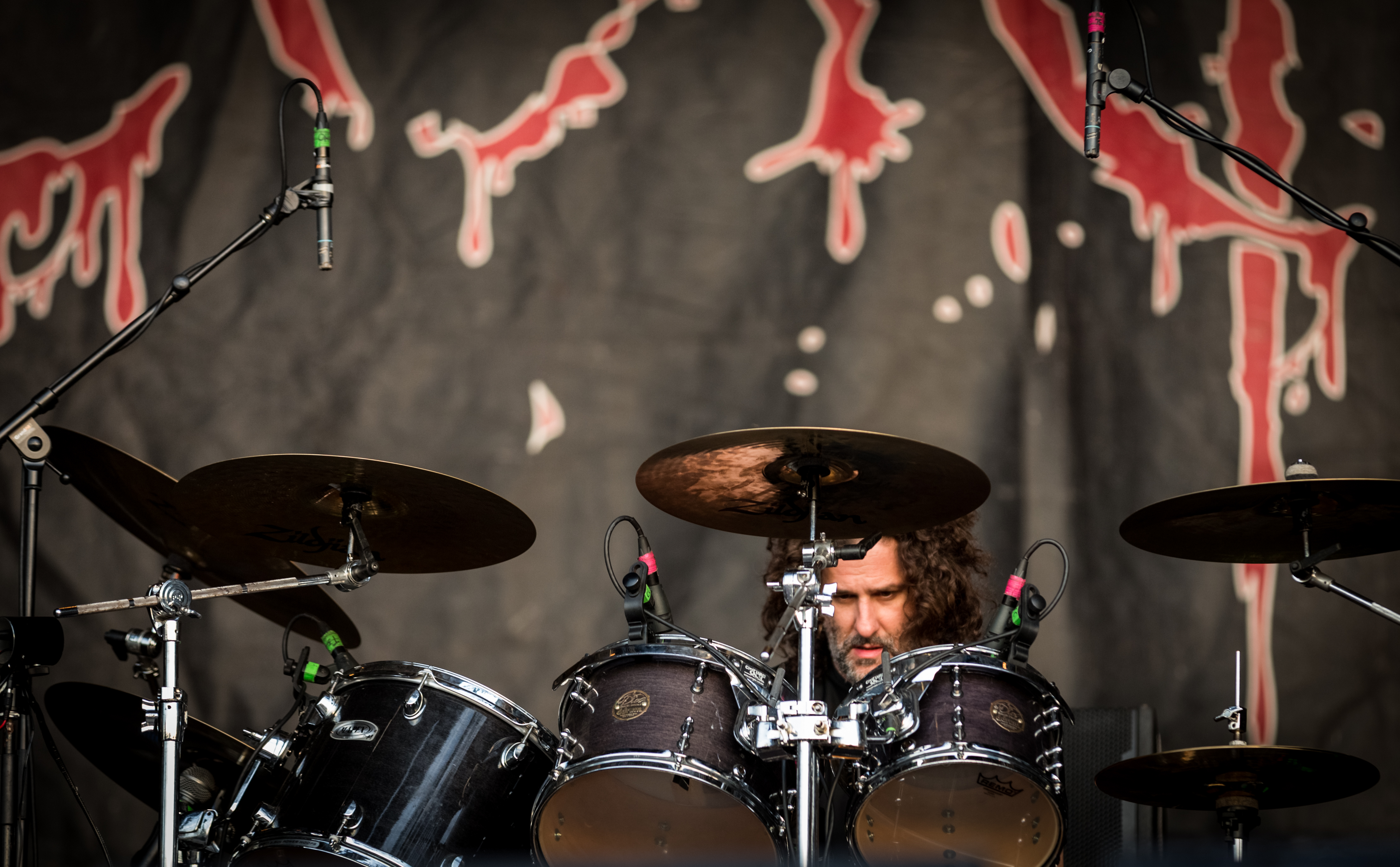 Cannibal Corpse - Wacken Open Air 2015